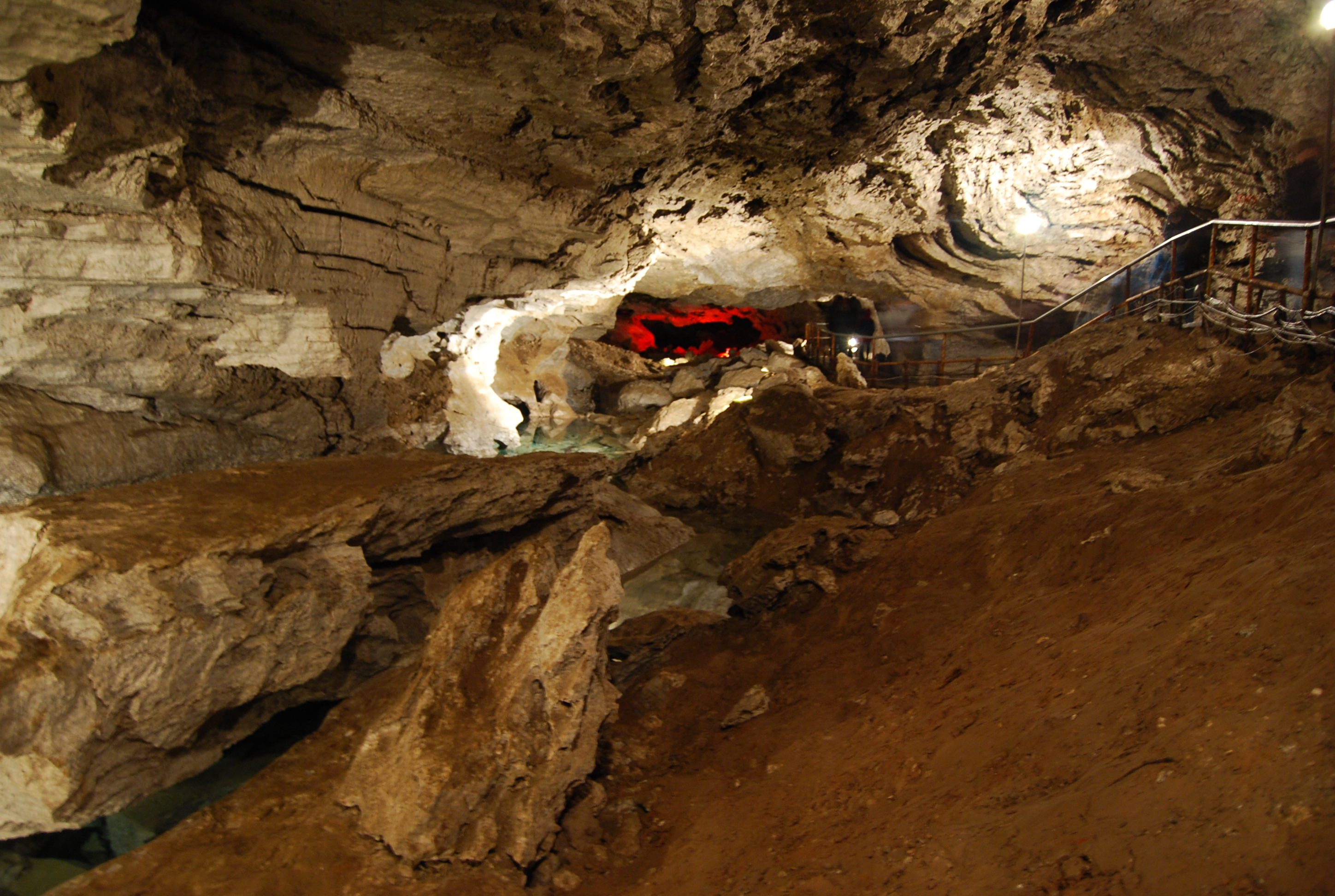 A grotto in Cave Kungurskaya.